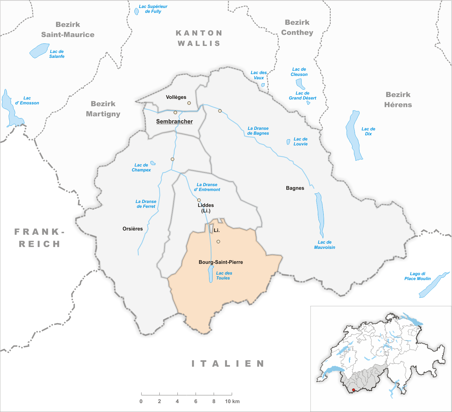 Municipality Bourg-Saint-Pierre